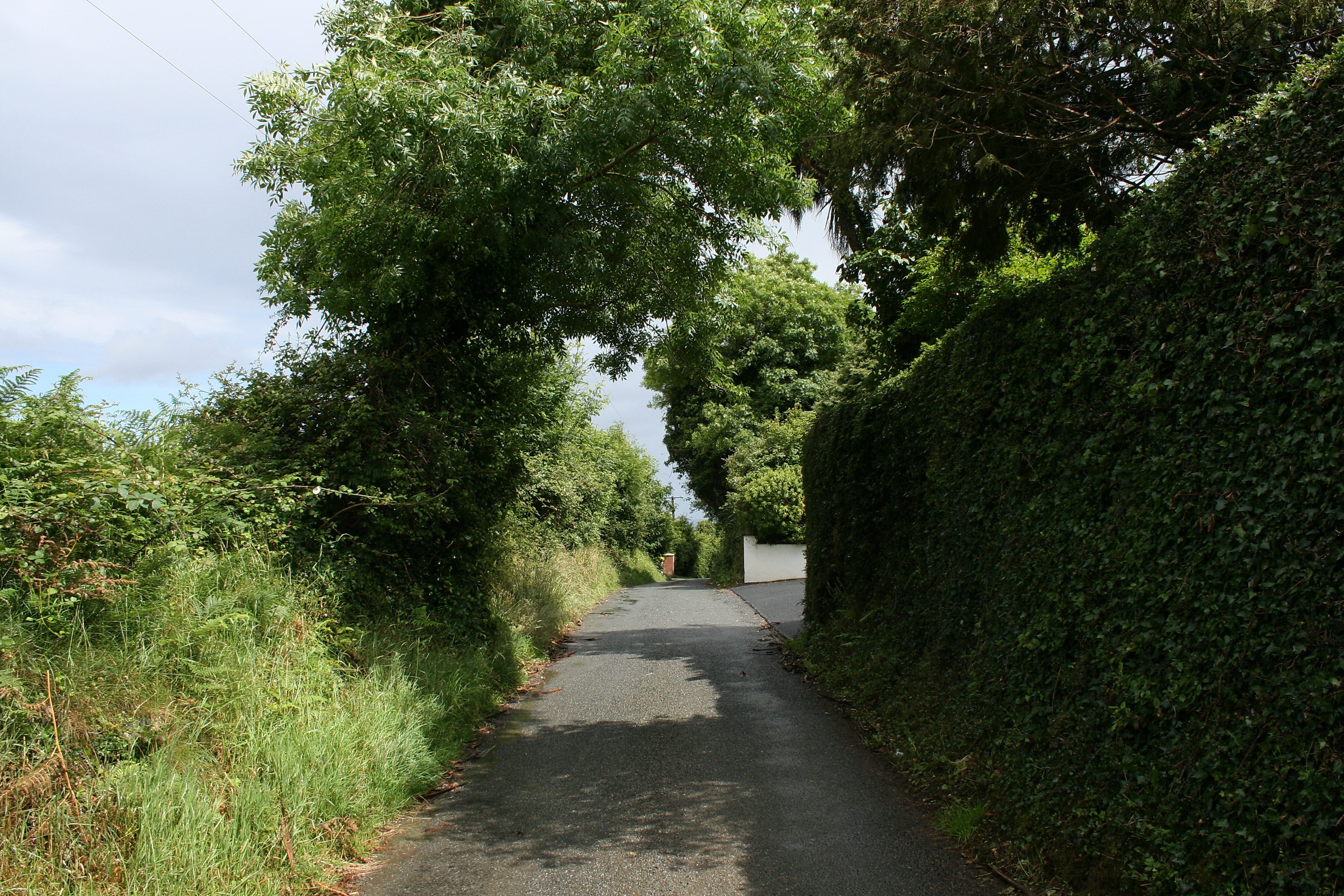 This is the new, unmarked, un-signposted, unlined single track Regional Road R772!